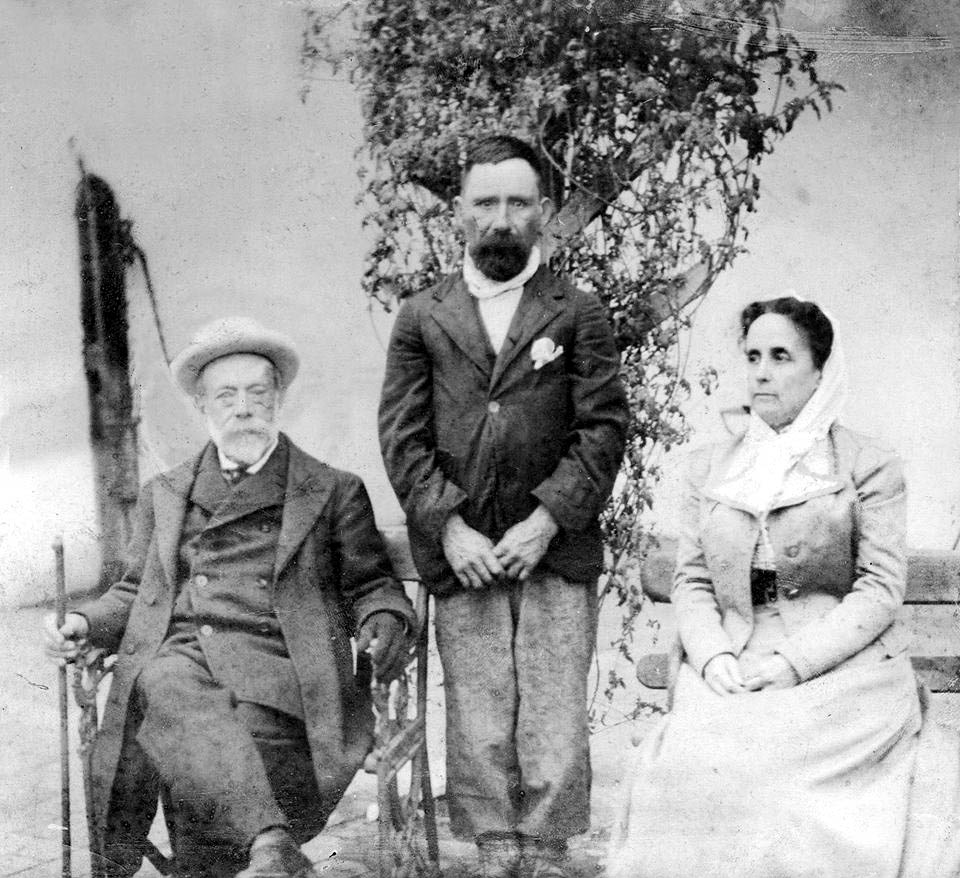 Ataliva Roca Paz (left) and his wife Segunda, godparents for the baptism of aborigin Juan . Ataliva was Julio A. Roca's brother.